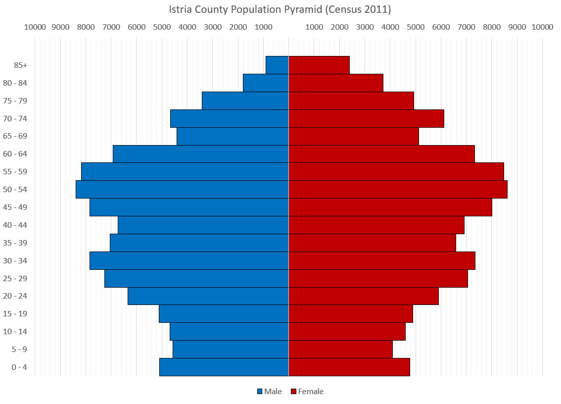 Population pyramid of Istria County. Version in English. Data from 2011 Census; available at